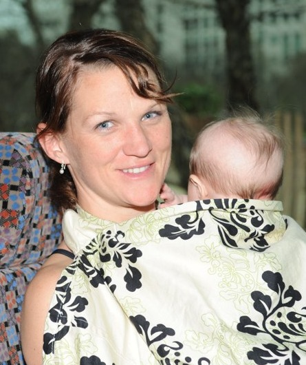 U.S. Army World Class Athlete Program Modern Pentathlete Mickey Kelly takes a break from breast feeding her baby during bus ride from the fencing to swimming venues at Modern Pentathlon World Cup Series stop No. 1 in Charlotte, N.C. U.S. Army photo by Tim Hipps, IMCOM Public Affairs